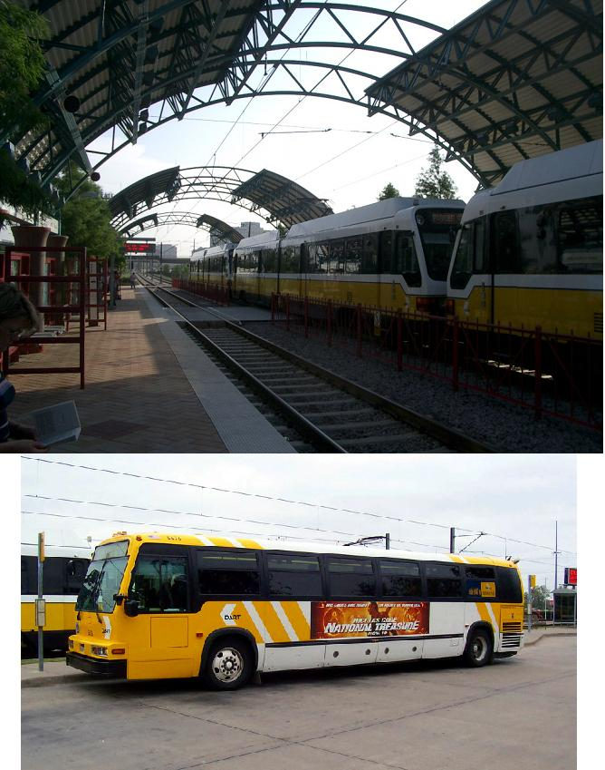 Combined image of File:DART_Arapaho_Station_2008-08-21.jpg(Top), with File:DART_Dallas_Nova_RTS_WFD_5616.jpg(Bottom) for Dallas Area Rapid Transit infobox. File:DART_Arapaho_Station_2008-08-21.jpg is property of Richard Murphy(Gaberlunzi) File:DART_Dallas_Nova_RTS_WFD_5616.jpg is property of Adam E. Moreira(AEMoreira042281) Both photographers have given me permission to publish their work as long as I give them credit.